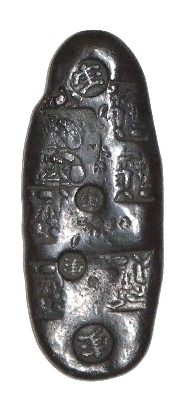 Yotsuho-chogin